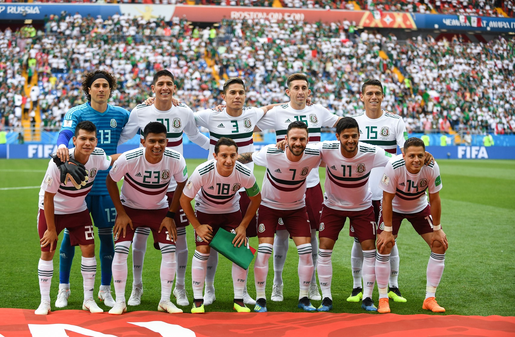 Mexico and South Korea match at the FIFA World Cup 2018-06-23